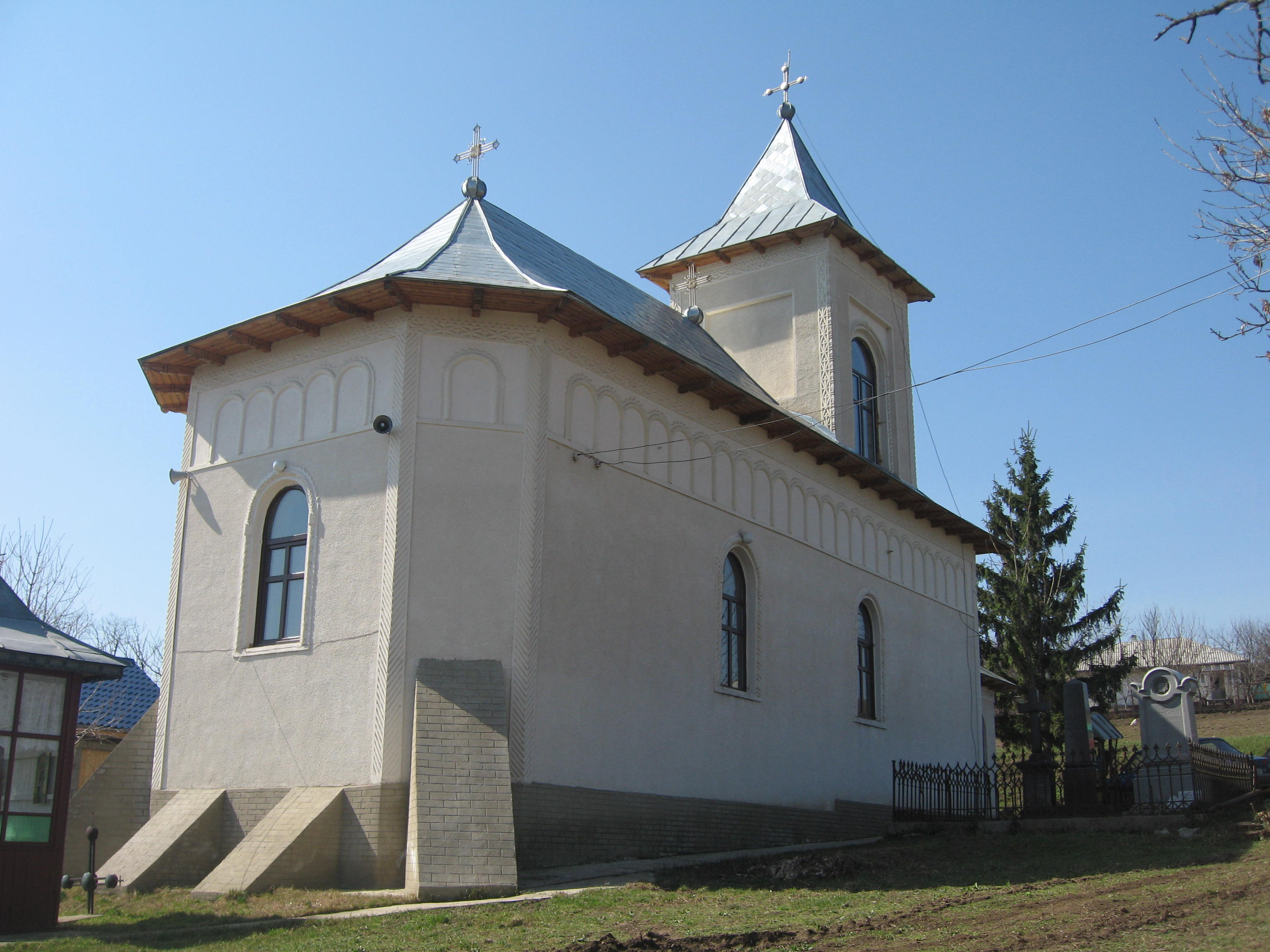 Biserica Pogorarea Sf. Duh din Hoisești, jud. Iași, România